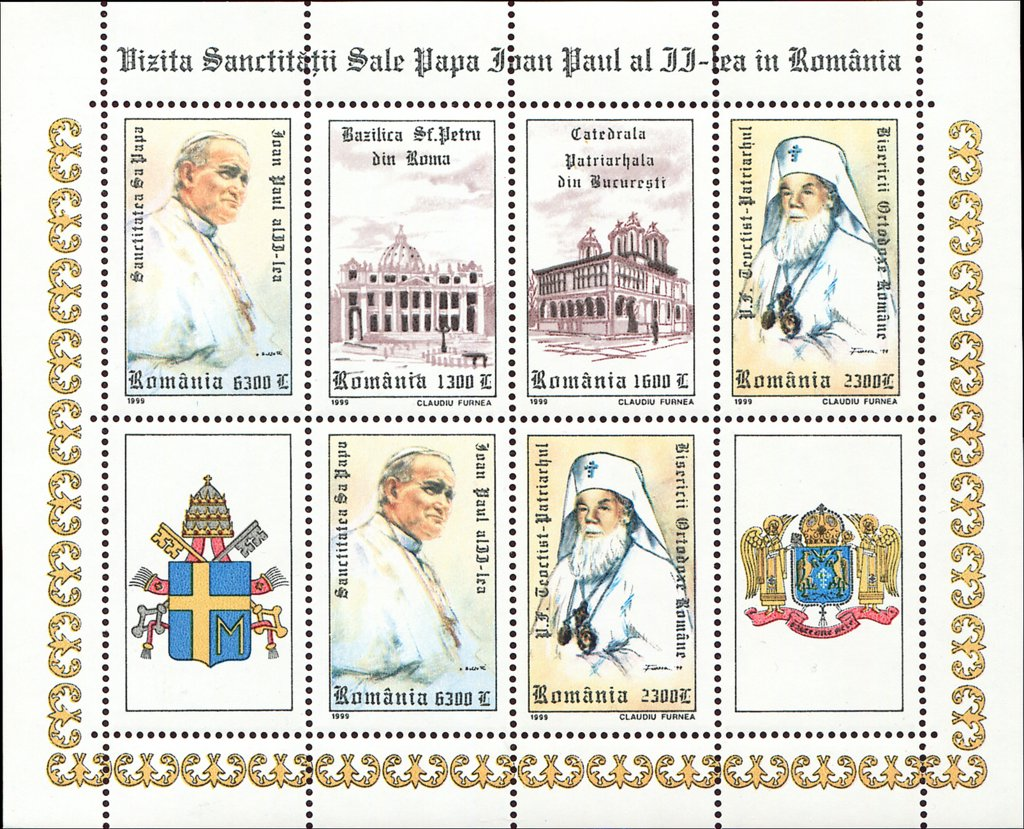 Visit of Pope John Paul II to Romania